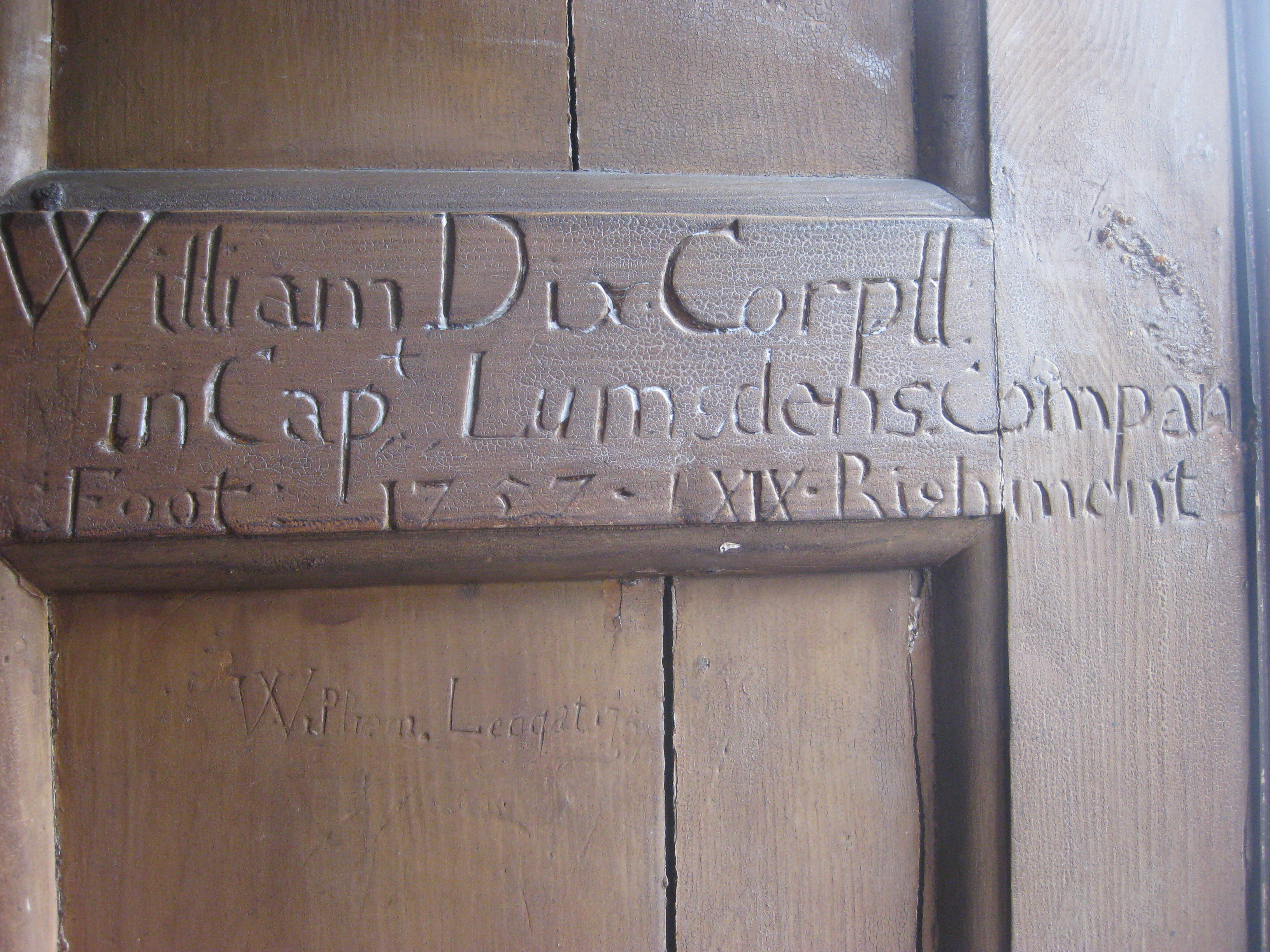 This file was uploaded as part of a GLAMWiki partnership with Braemar Castle. You can find out more on the Museums Galleries Scotland project page. This tag does not indicate the copyright status of the attached work. A normal copyright tag is still required. See Commons:Licensing for more information. Graffiti dating from 1757 in Braemar Castle.